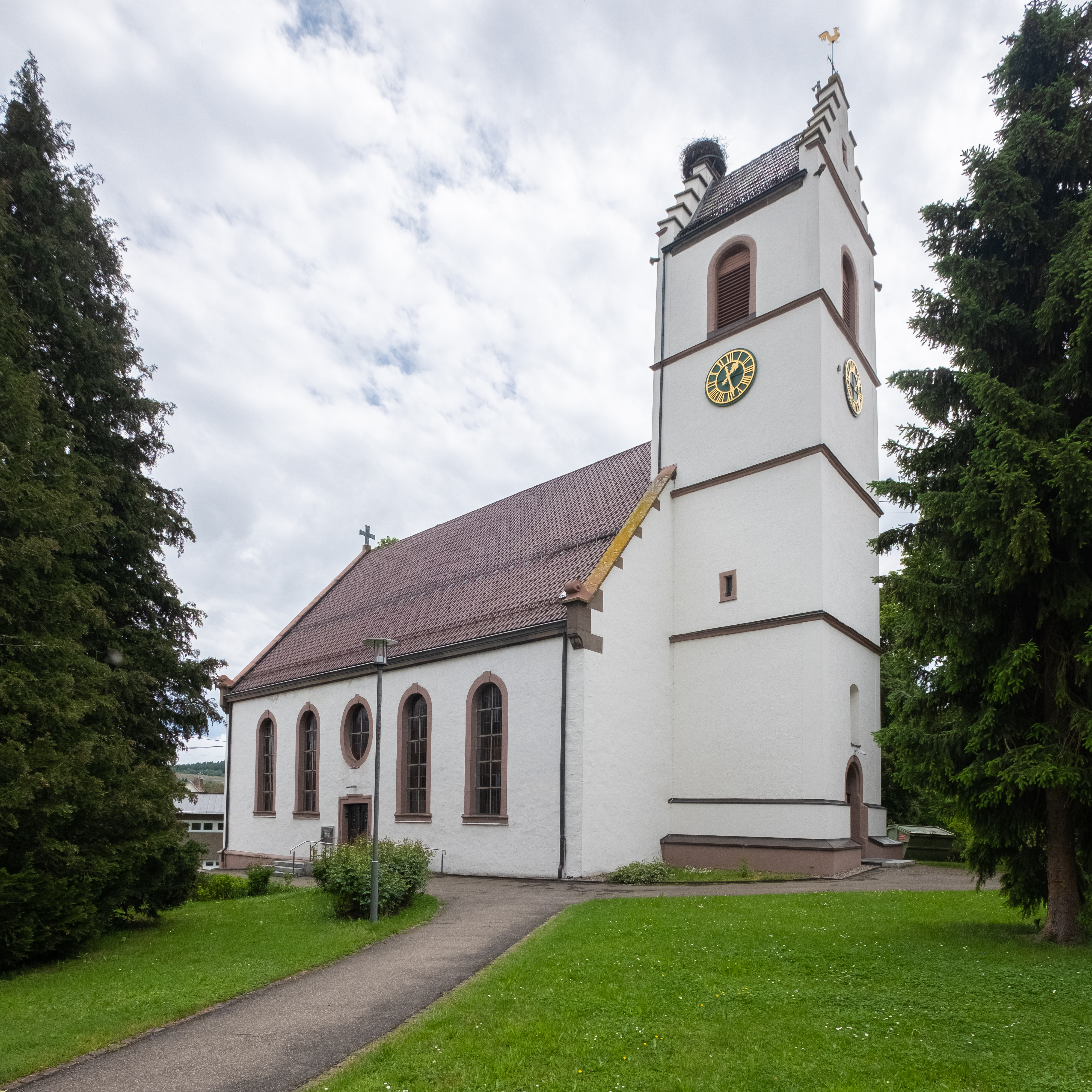 Church Michaelskirche, Tuningen, district Schwarzwald-Baar-Kreis, Baden-Württemberg, Deutschland